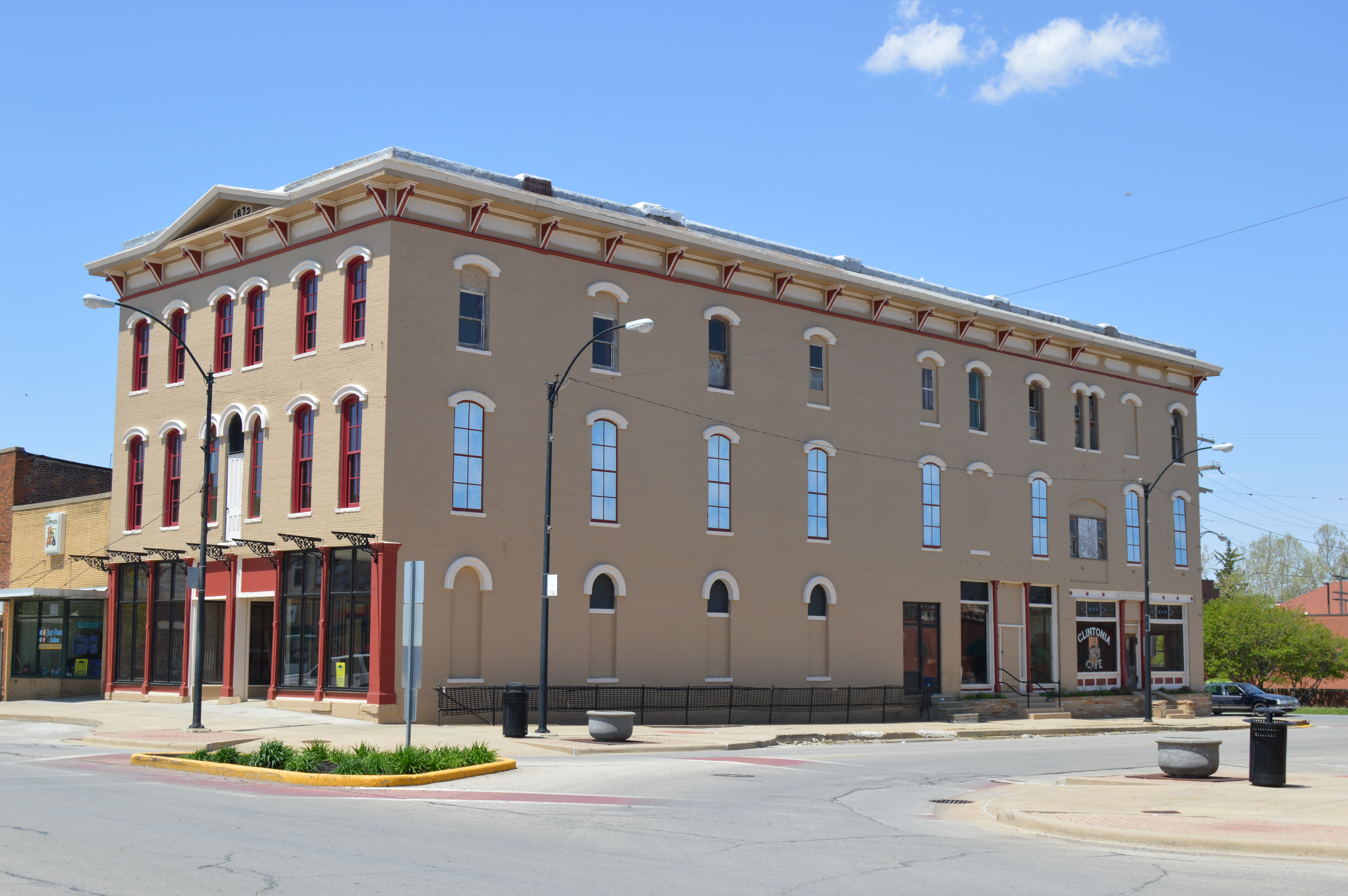 Eastern side and front of the Col. Matthew Rogers Building, located on the public square in Clinton, Illinois, United States. Built in 1872, it is listed on the National Register of Historic Places.